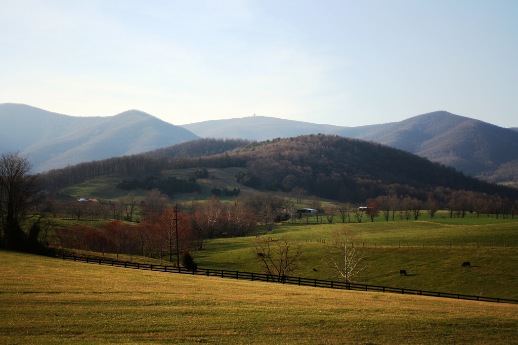 A view of Apple Orchard Mountain from the south.